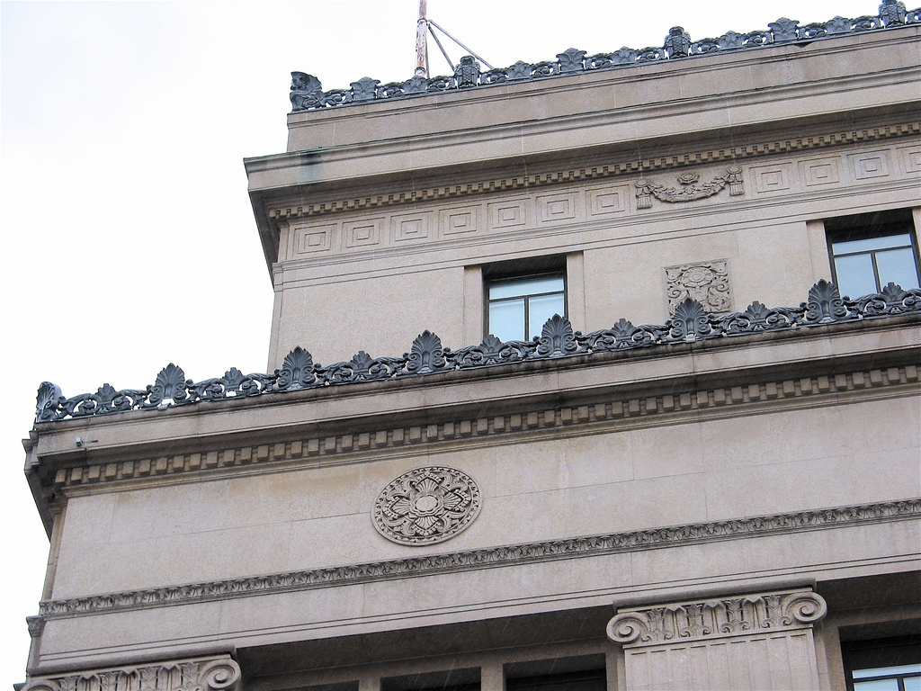 Detail of College Park (Former Eaton's College Street store) facade in 2003